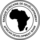 Logo of the African Development Bank (AfDB), part of the African Development Bank Group